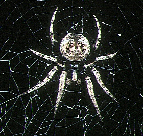 female Poltys illepidus from Okinawa.